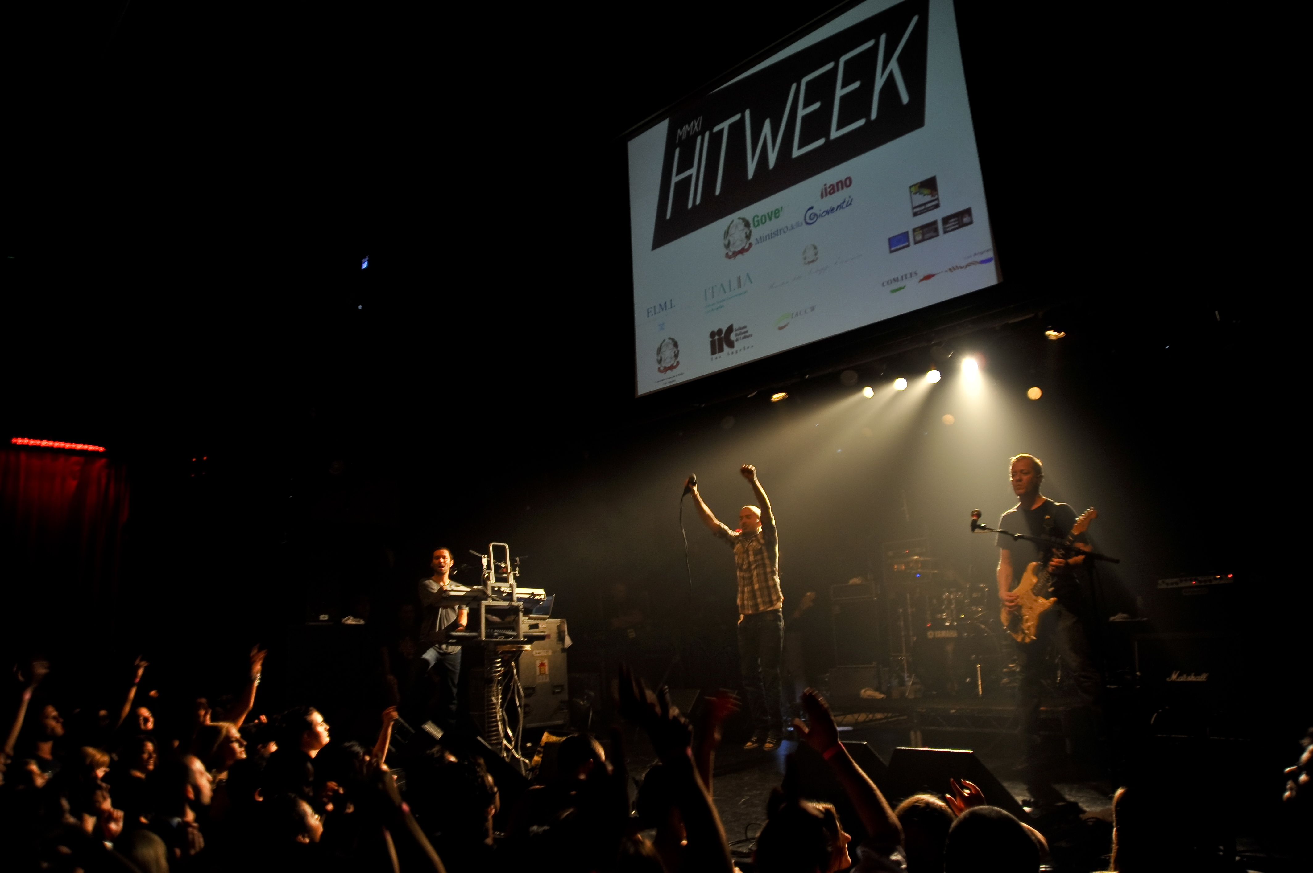 Subsonica, Hit Week Festival 2011